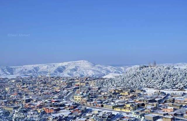 batifa-zivistan2017